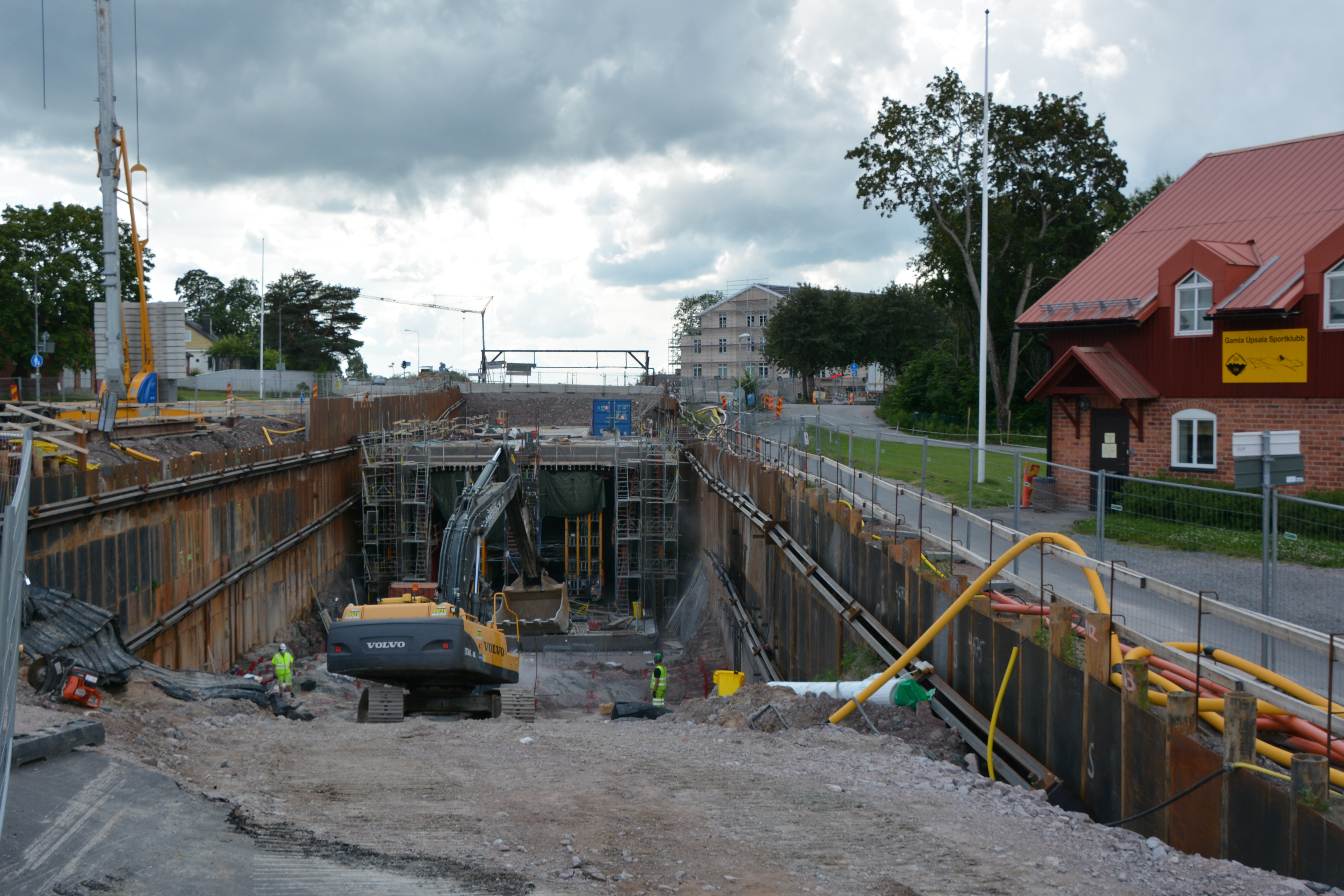 Norra tågtunneln under byggnation, Gamla Uppsala